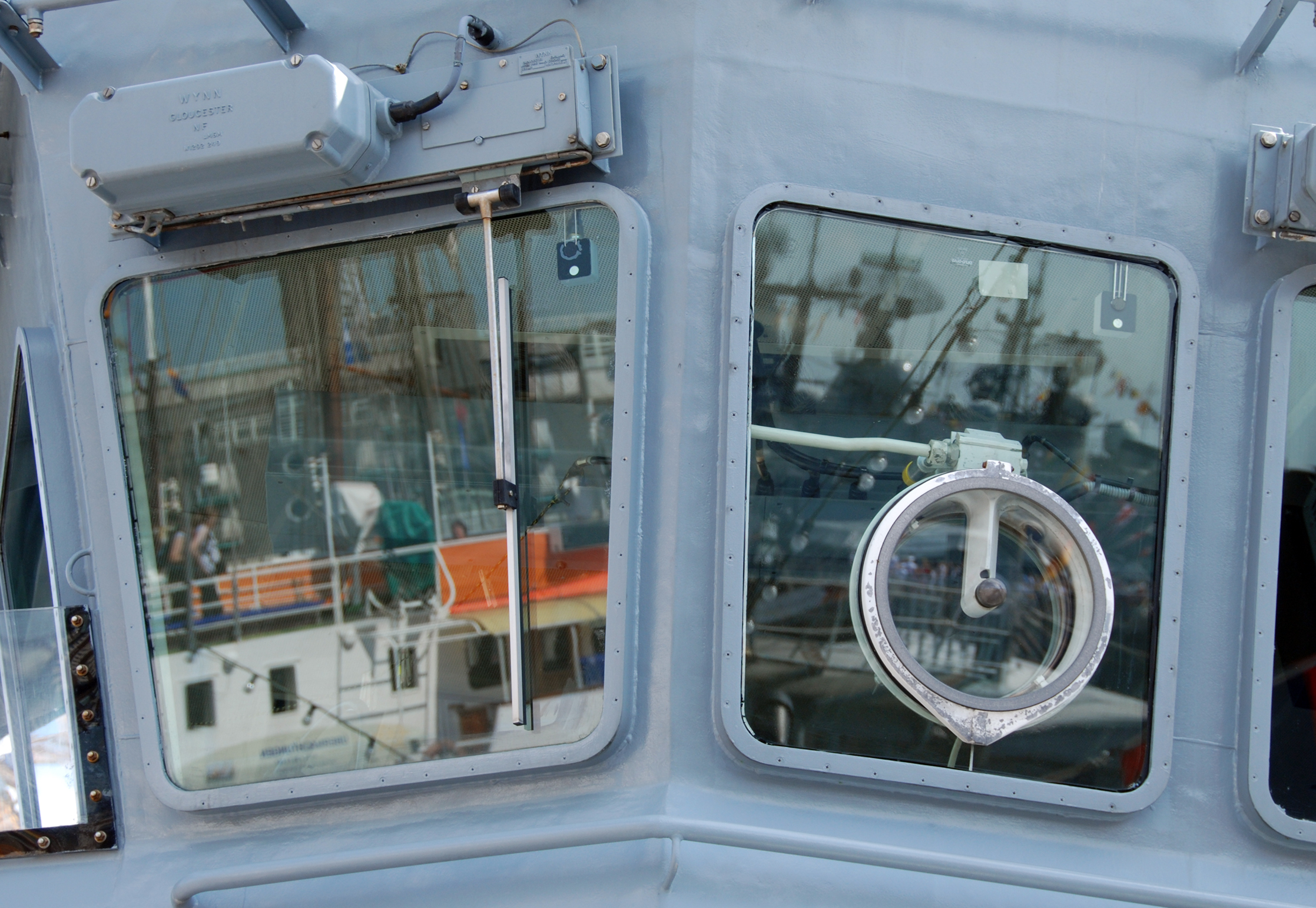 Bridge windows of the German navy mine sweeper Dillingen.